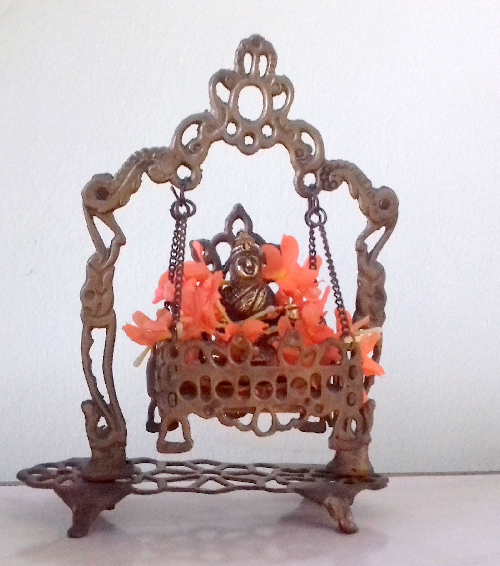 Chaitra Gaur